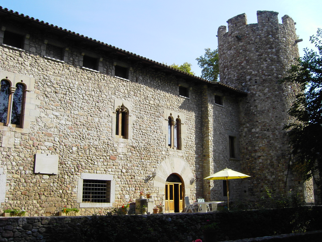 facade of Torre de Cellers